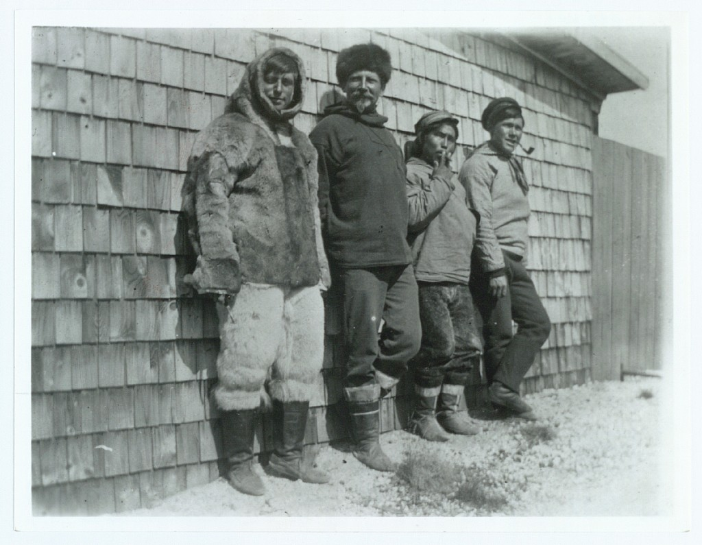 Three of the five participants of The Literary Greenland Expedition, Danish expedition to Greenland 1902-1904 with Osaqaq: From left: Knud Rasmussen, Luldvig Mylius-Erichsen, Osaqaq anf Jørgen Brønlund